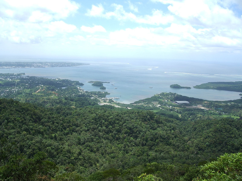 Suva harbour as seen from the highest peak in the area.